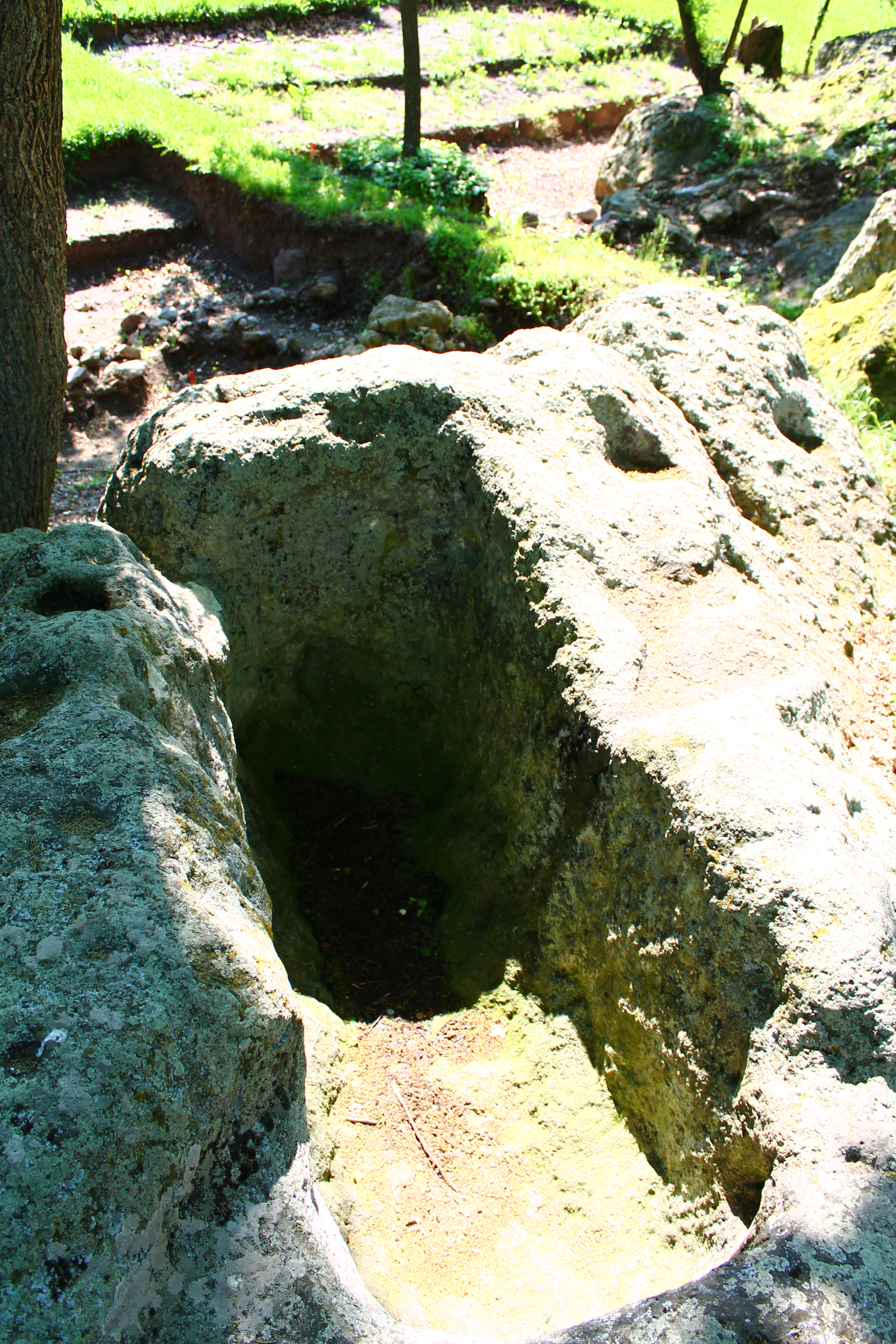 The step of Virgin Mary Haskovski Mineralni Bani Bulgaria 02